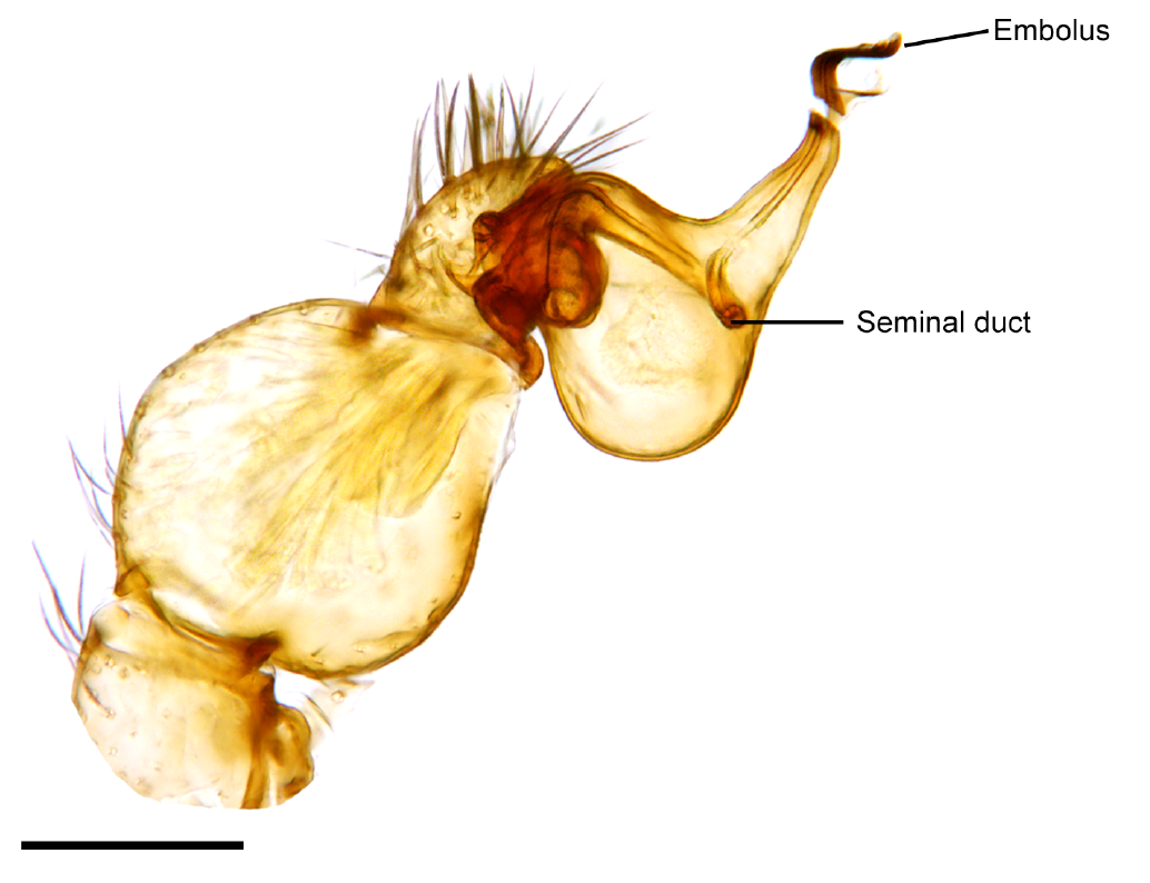 Male copulatory bulb of Unicorn catleyi. Scale bar = 0.2 μm.